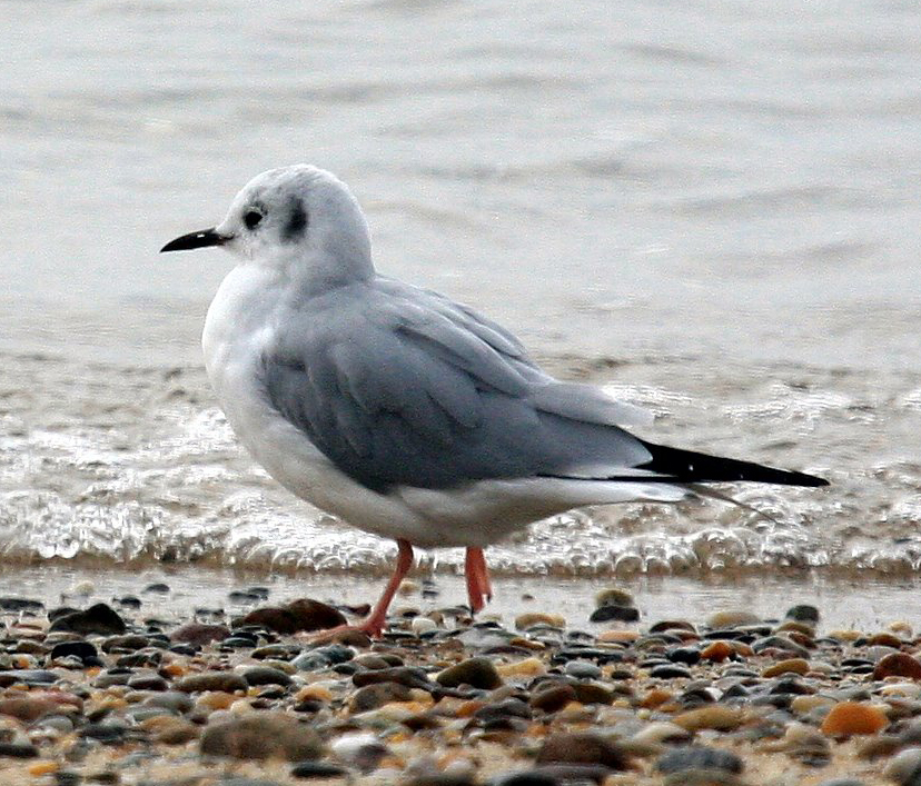 Bonaparte's Gull, adult winter plumage.